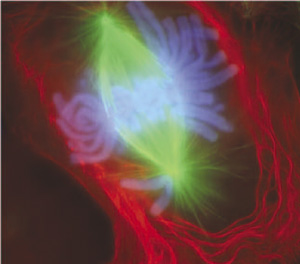 An image of a newt lung cell stained with fluorescent dyes undergoing mitosis, specifically during early anaphase. According to NIH, "The scientists use newt lung cells in their studies because these cells are large, easy to see into, and are biochemically similar to human lung cells." The material stained green are the mitotic spindles, the material stained red is the cell membrane and some components of the cytoplasm near it, and the material stained light blue are the chromosomes.